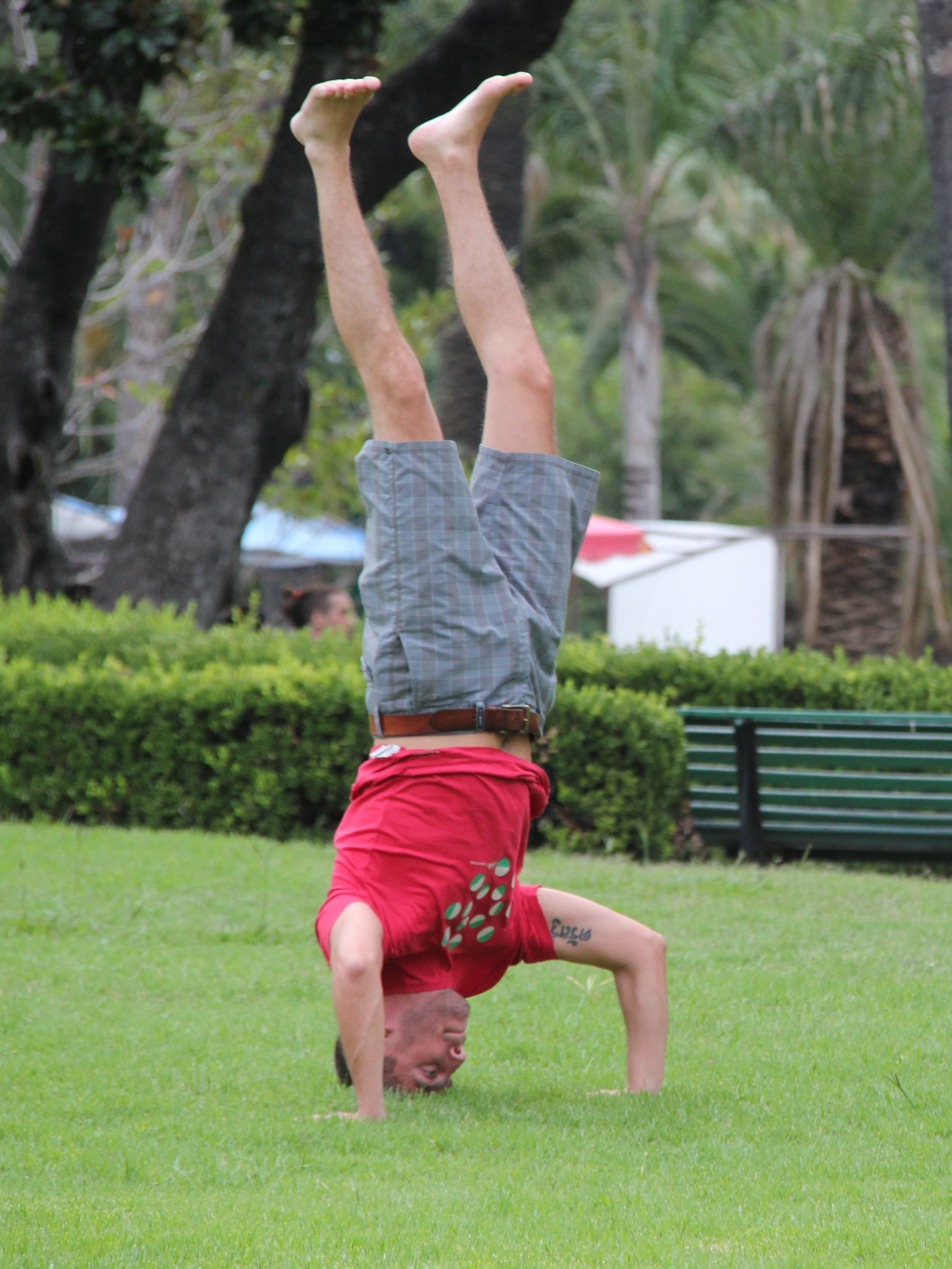 Guy doing a hand/headstand in a park in Buenos Aires, february 2014.